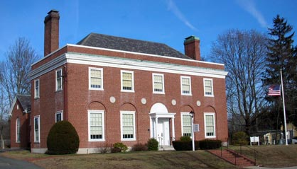 Dyer Memorial Library in Abington, Massachusetts, USA - A resource for local history and genealogy for the towns of Abington, Rockland and Whitman, Mass., the South Shore, and beyond.